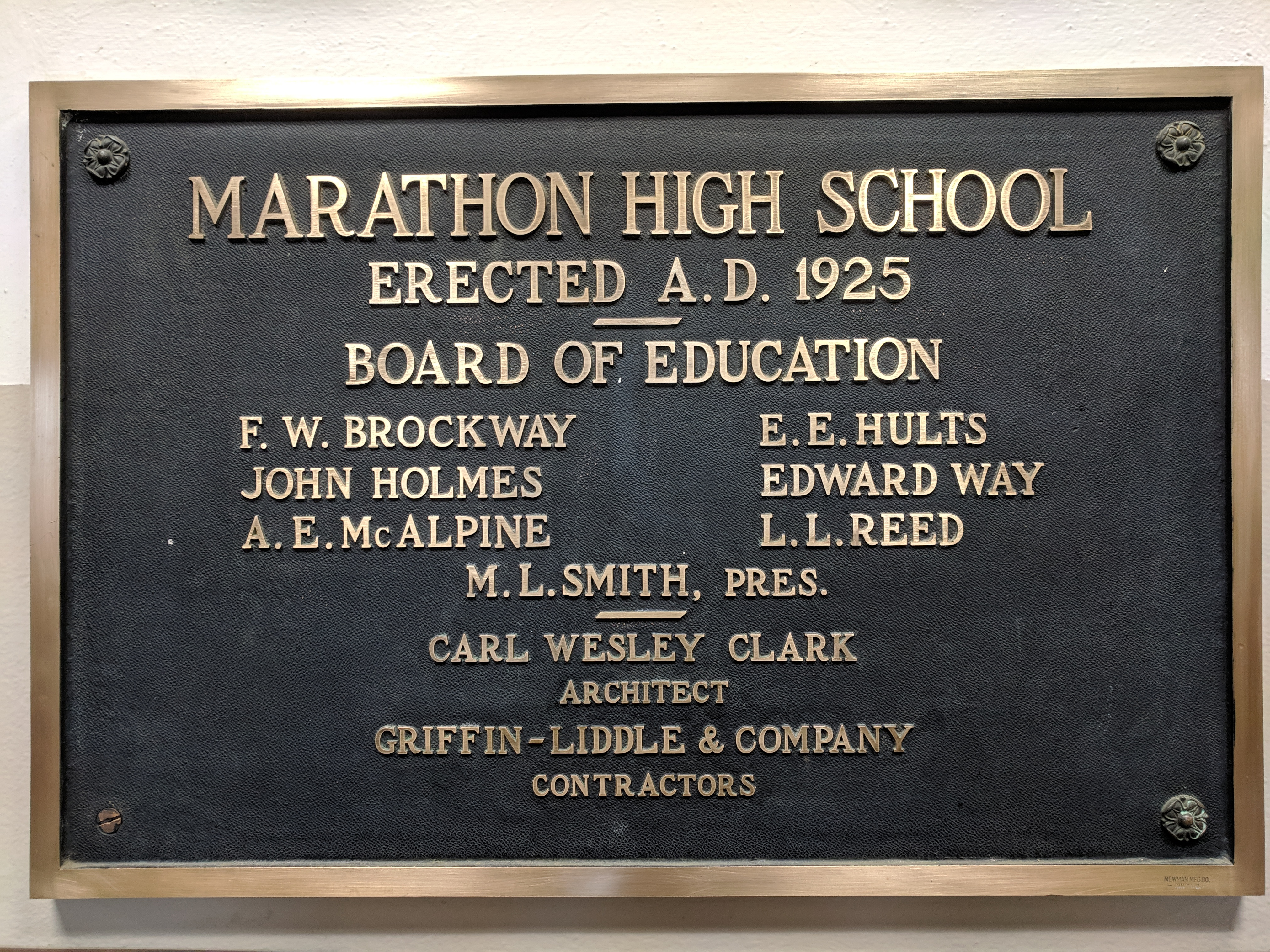 ​​49th CNY Maple Festival 2019 in Marathon, New York